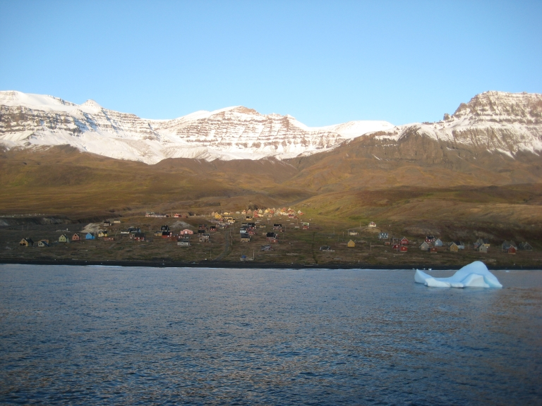 Qllissat from the seaside.